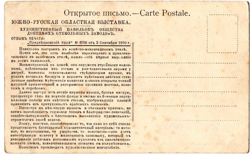 Pavilion made by Donetsk Glass Manufacture at Kostyantynivka for an exhibition at Ekaterinoslav,1910 (description)